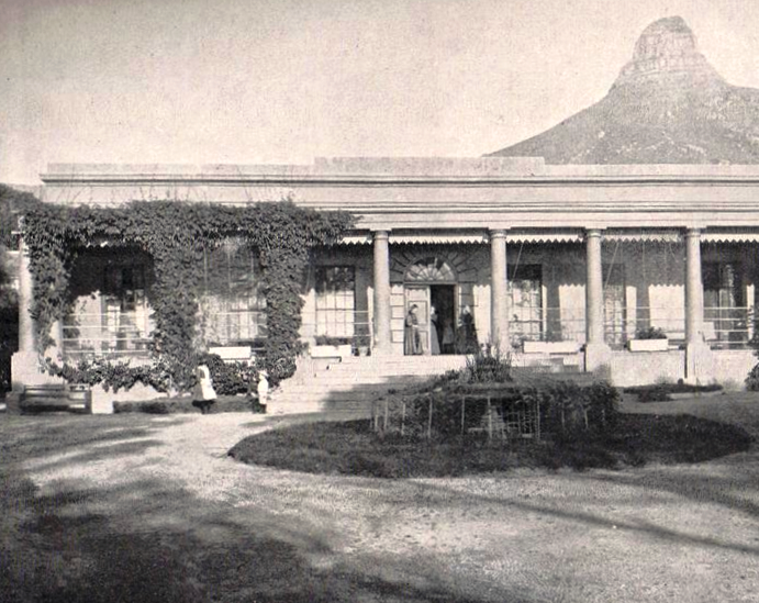 Clarensville House in Sea Point. Cape Town. Residence of MP and businessman Saul Solomon. Lions Head visible in the background. 1870s.